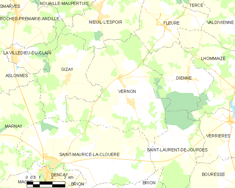 Map of French municipality Vernon